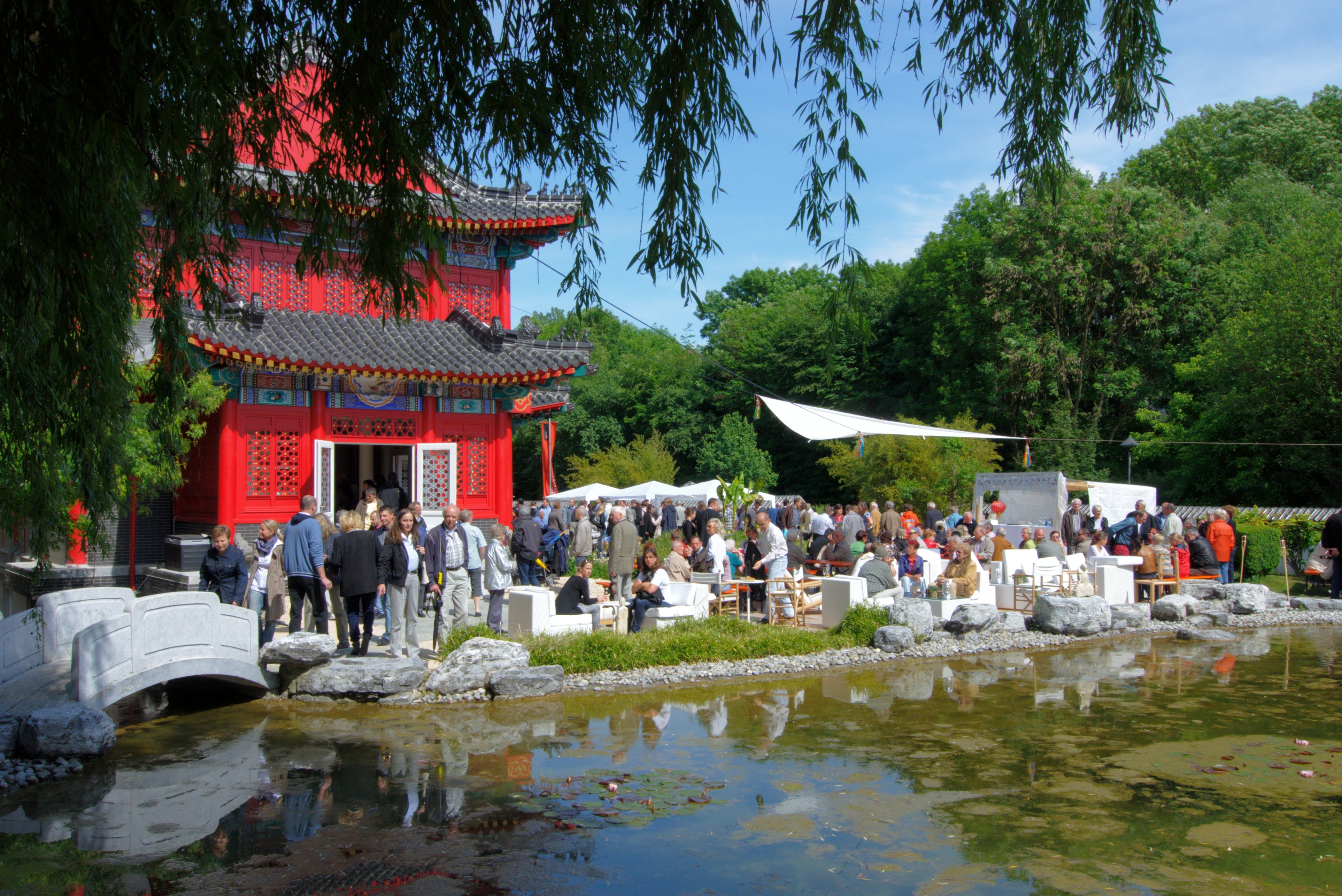 Re-Opening of the Chinese House in Freiberg am Neckar on May 15, 2011.